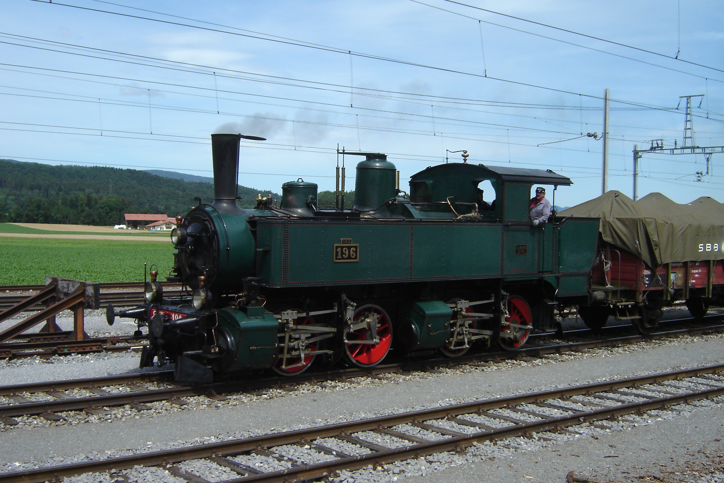 Mallet steam locomotive Ed 2x2/2 of the former Swiss "Centralbahn" at the "Dimanche Vapeur" (Steam Sunday) in Delémont in the canton of Jura in Switzerland